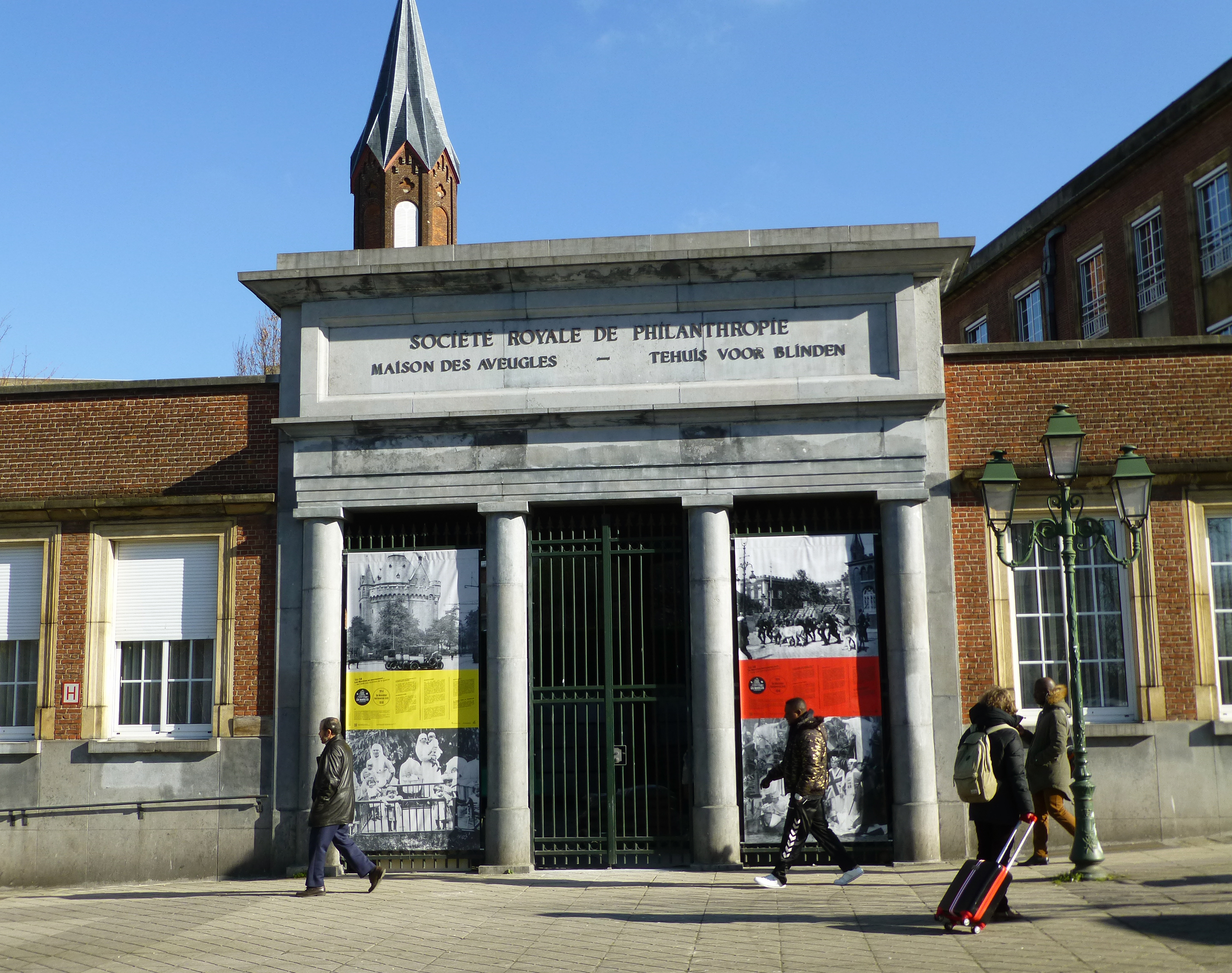 Philanthropy society founded in 1828, near Porte de Hal at Brussels.